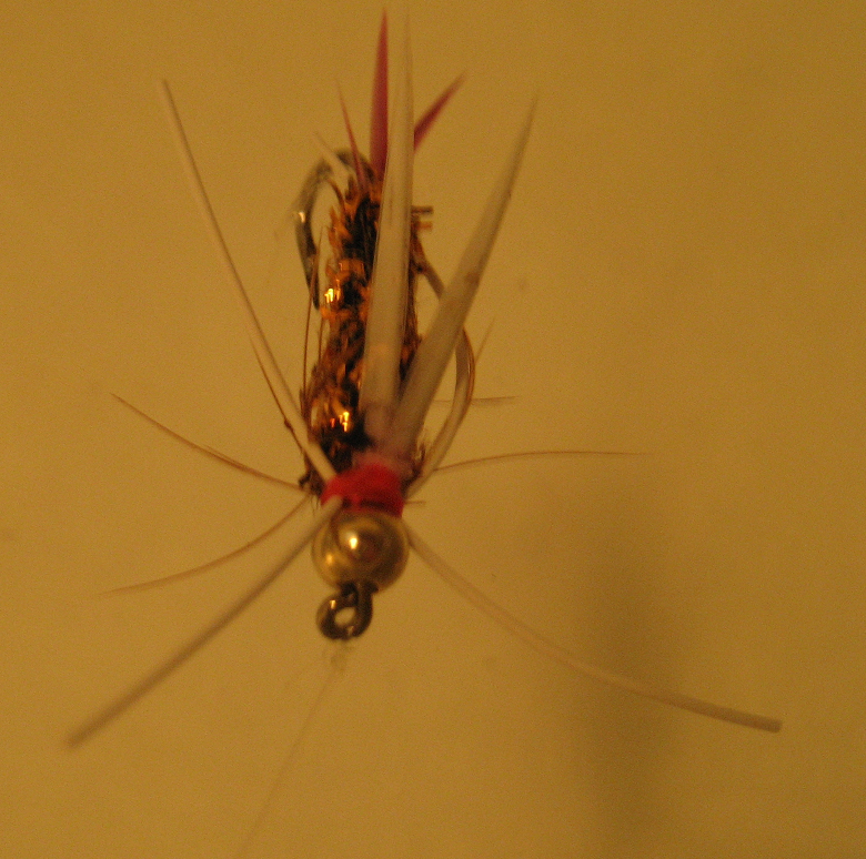 A fly fishing nyph underwater.